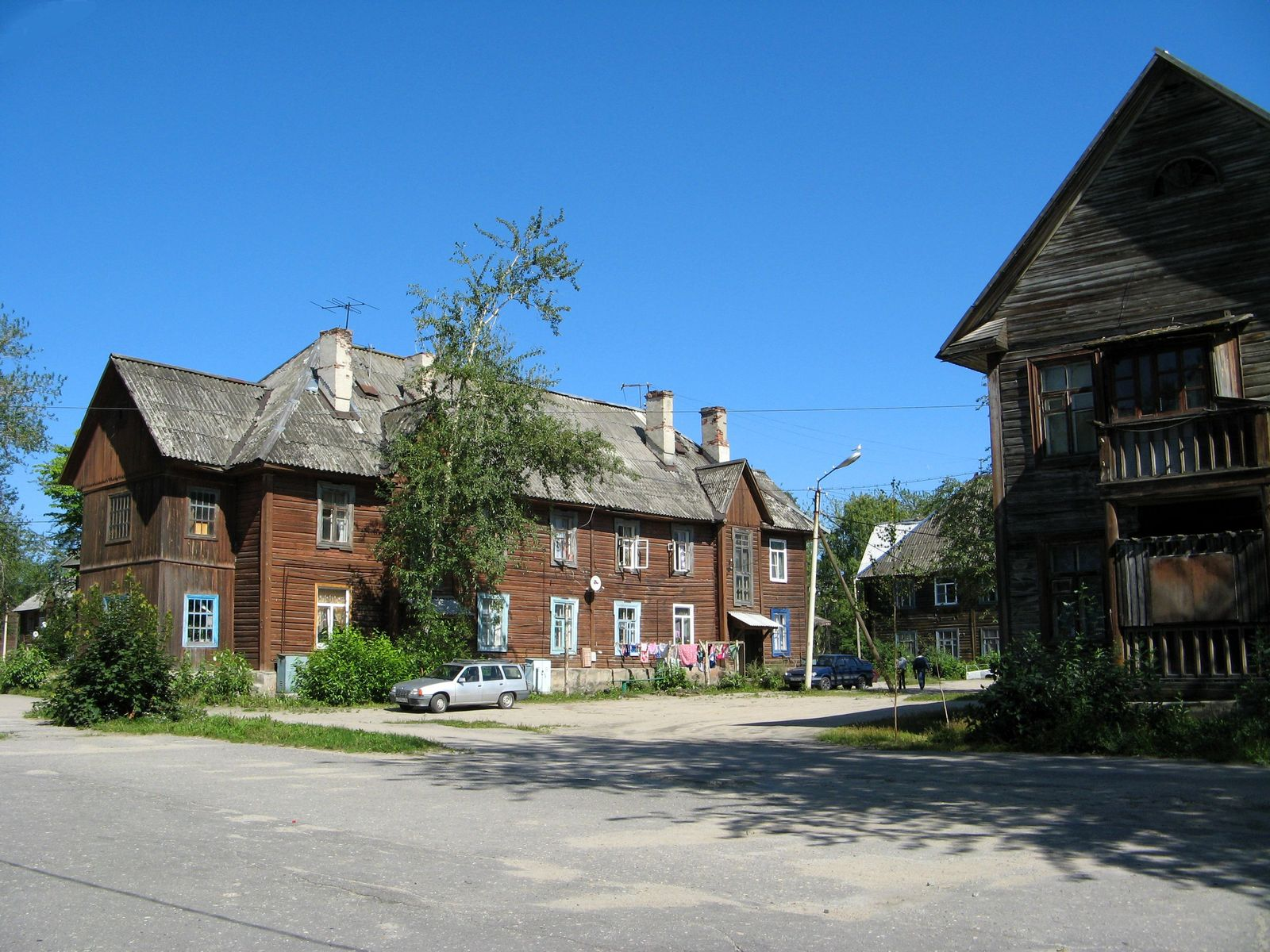 Wooden houses In Segezha